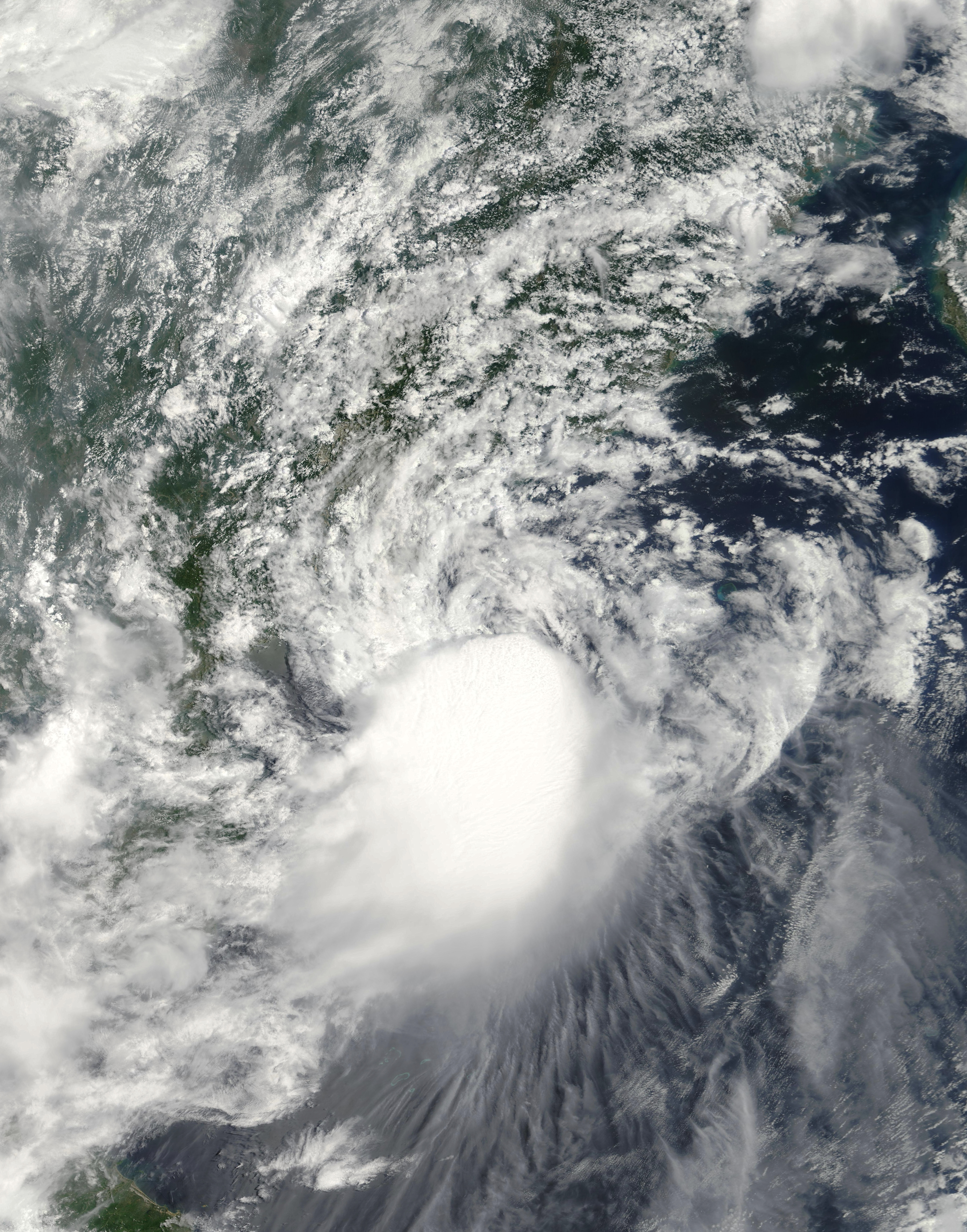 Tropical Storm Goni (PAGASA Jolina JTWC 08W) on August 4, 2009.